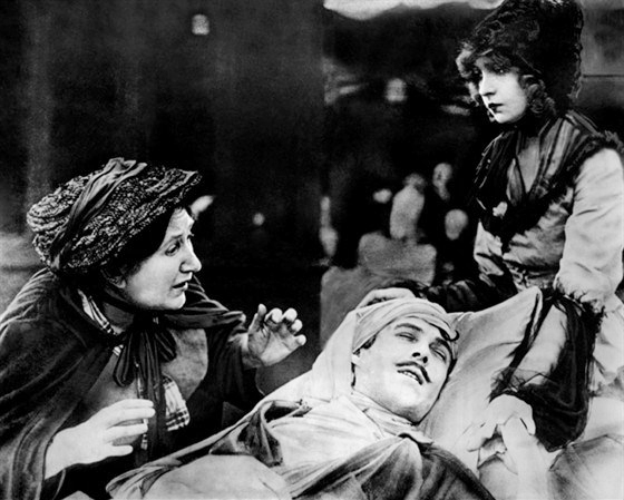 Left to right : Josephine Crowell, Henry B. Walthall, and Lillian Gish in The Birth of a Nation - cropped screenshot